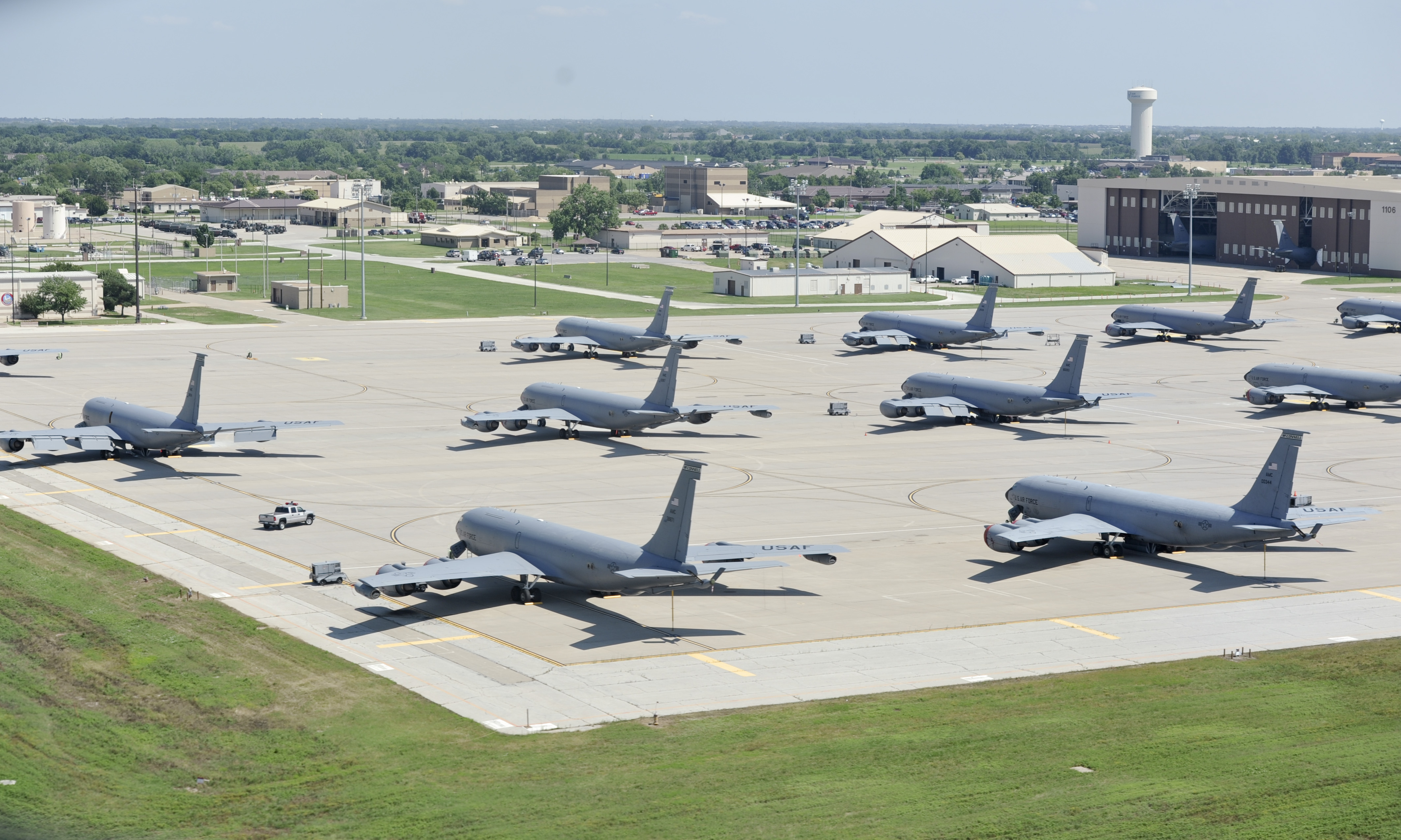 McConnell Air Force Base is the world’s largest Air Refueling Wing and is the home of 62 KC-135 Stratotankers. McConnell’s primary mission is to provide global reach by conducting air refueling and airlift where and when needed. (U.S. Air Force photo/Airman 1st Class John Linzmeier) Unit: 22nd Air Refueling Wing Public Affairs